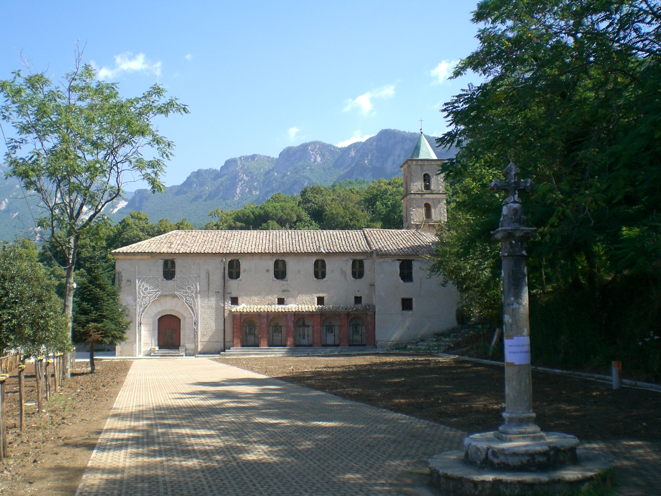 Sanctuary of Madonna di Avigliano